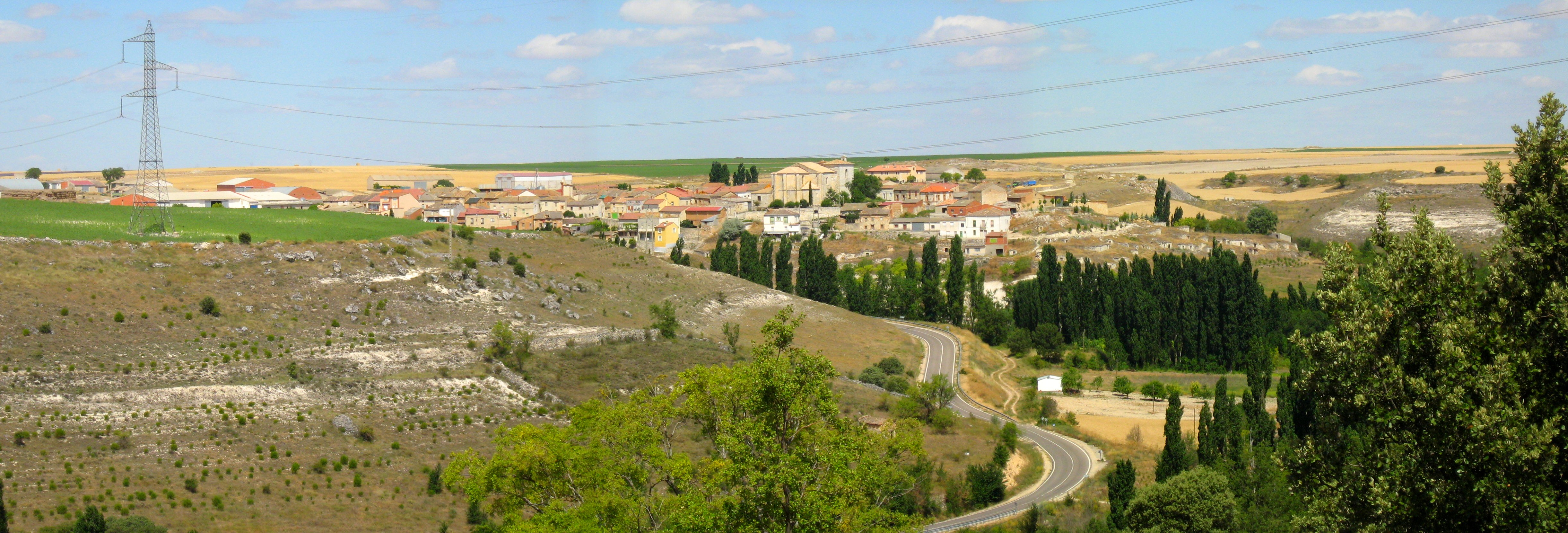 San Llorente, Valladolid, View from El Robledal. Valle del Cuco